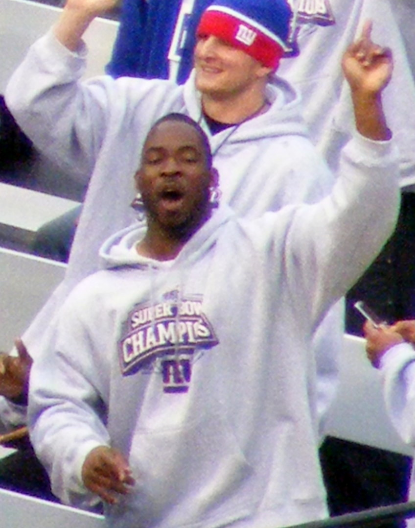 Giants Stadium - Justin Tuck at the Giants Rally after victory in Super Bowl XLII.